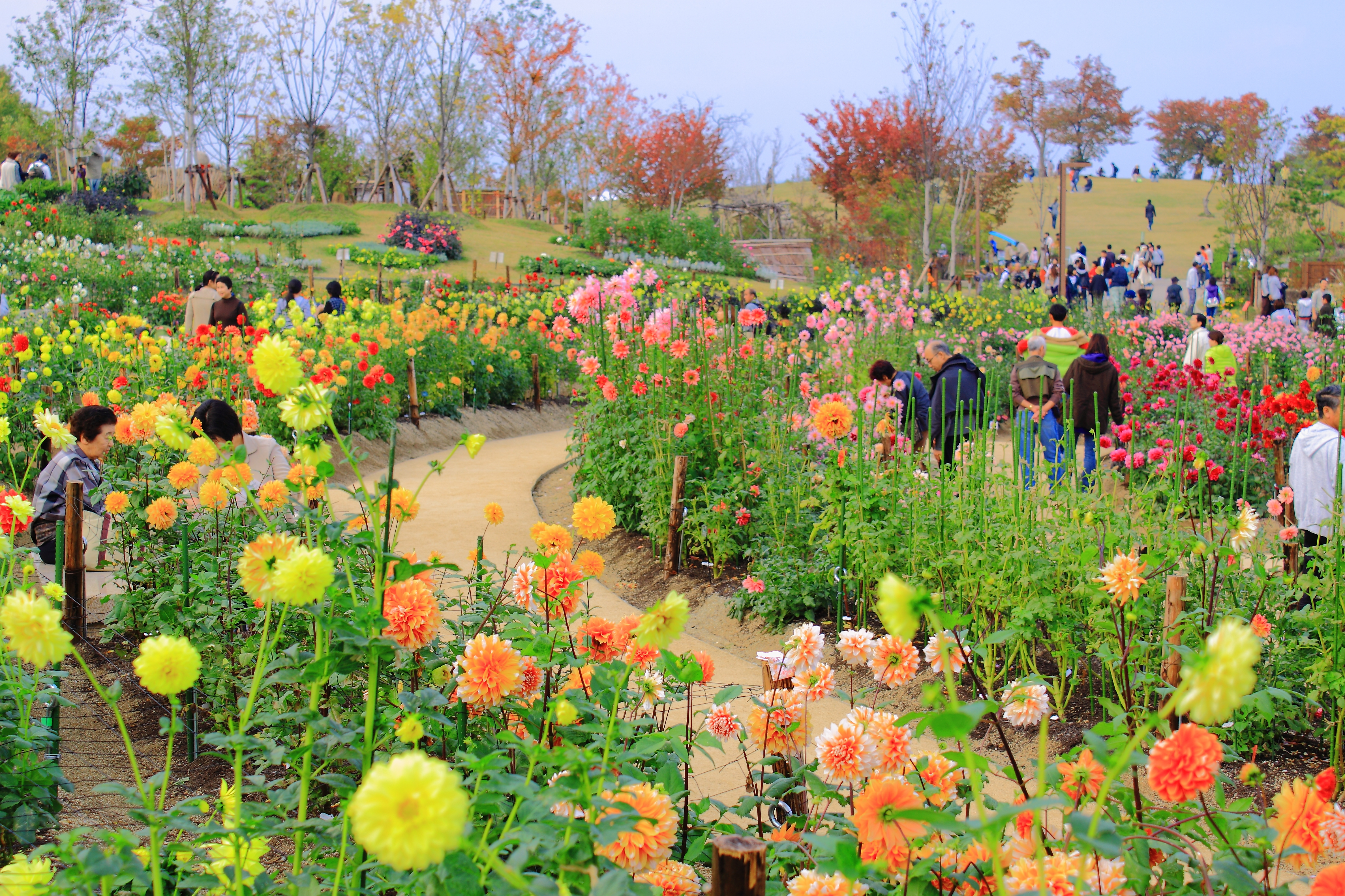 27th National Urban Greening Fair